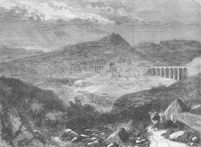 The Bhore Ghaut incline (a very taxing track engineering feat), from the Illustrated London News, 1867